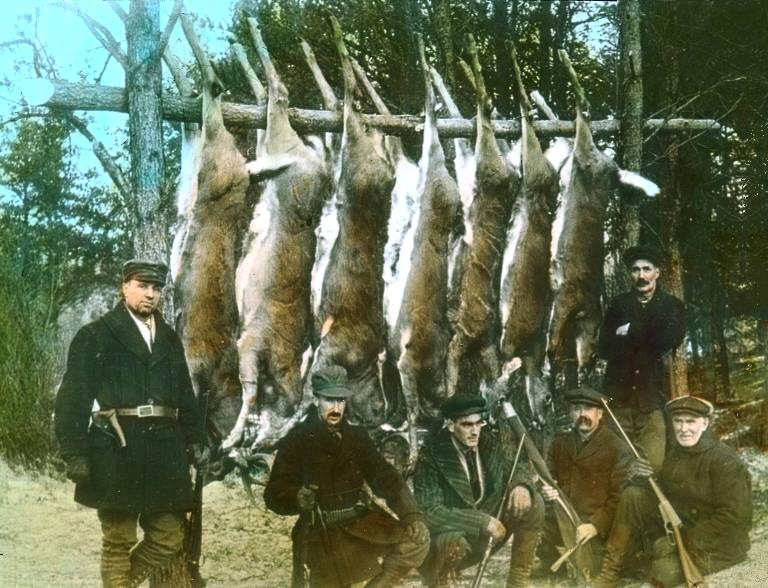 Photograph, glass lantern slide, Deer hunting in Northern Ontario, ON, about 1930, Anonymous. Silver salts and transparent ink on glass - Gelatin dry plate process - 8 x 10 cm